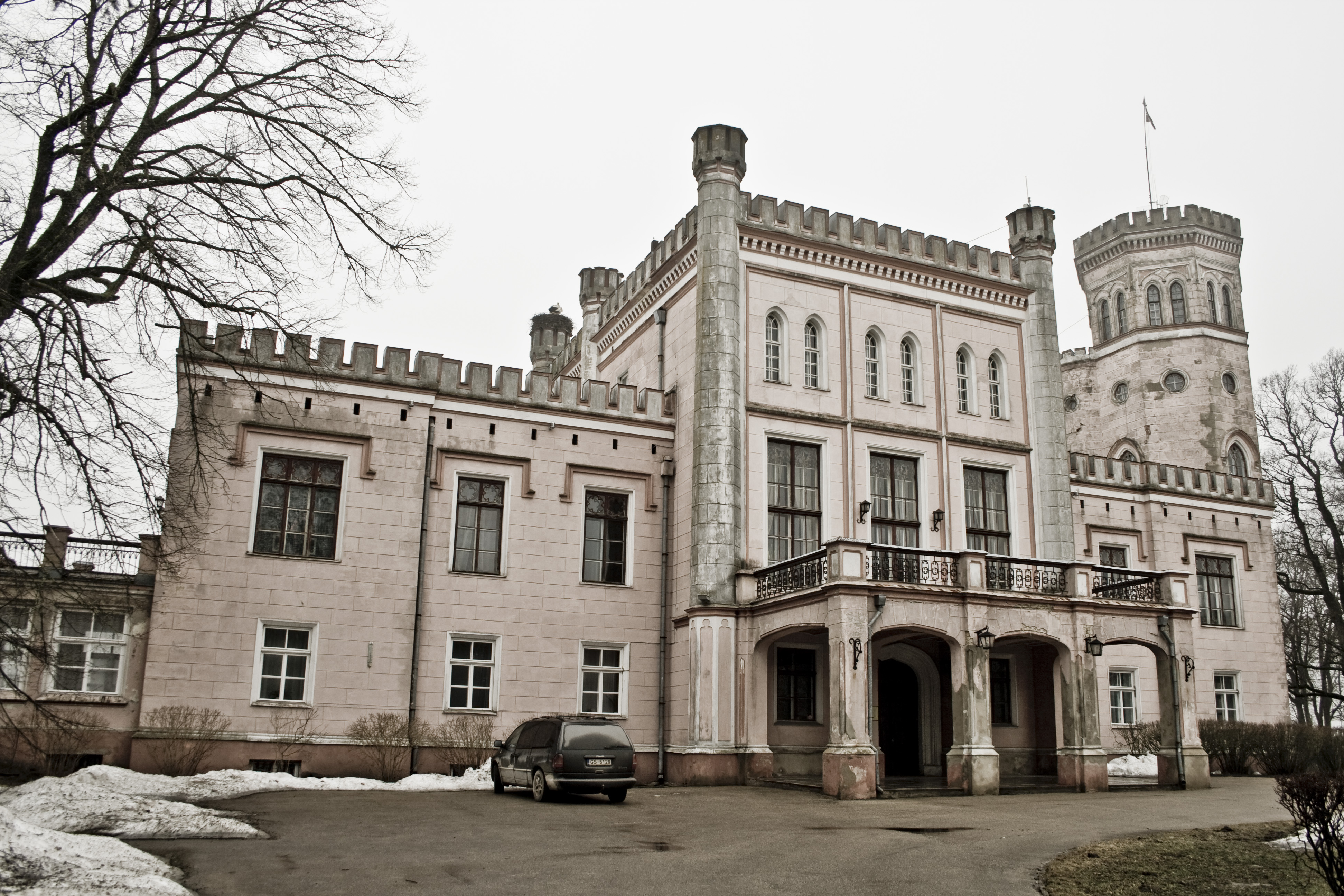 Vecauce Manor was completely built in 1843.